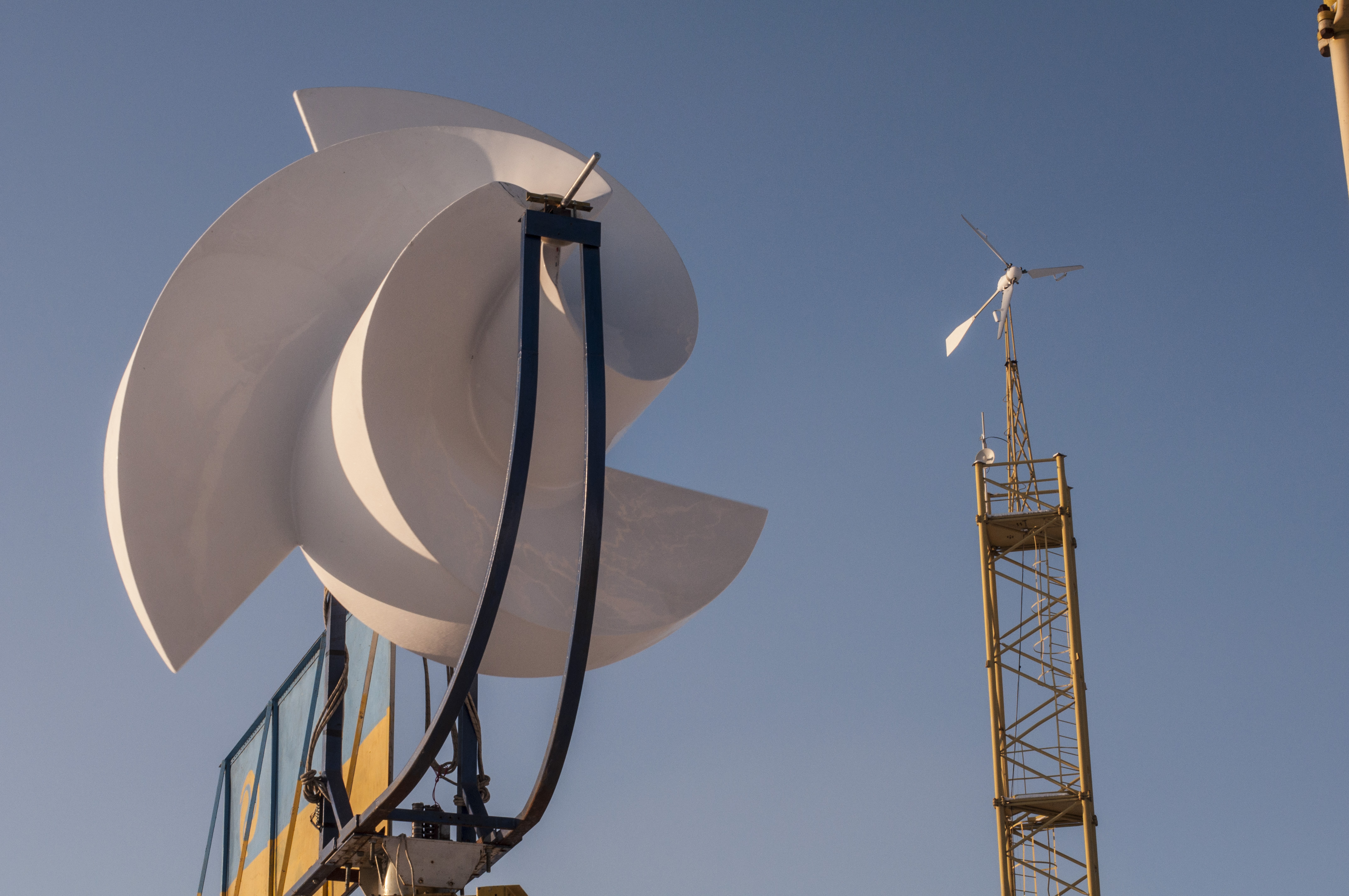 Onipko Rotor Wind Electric Turbine (ORWET), 2.88 meters in diameter at the testing facility. Classic 3-bladed turbine seen on tower in the back.